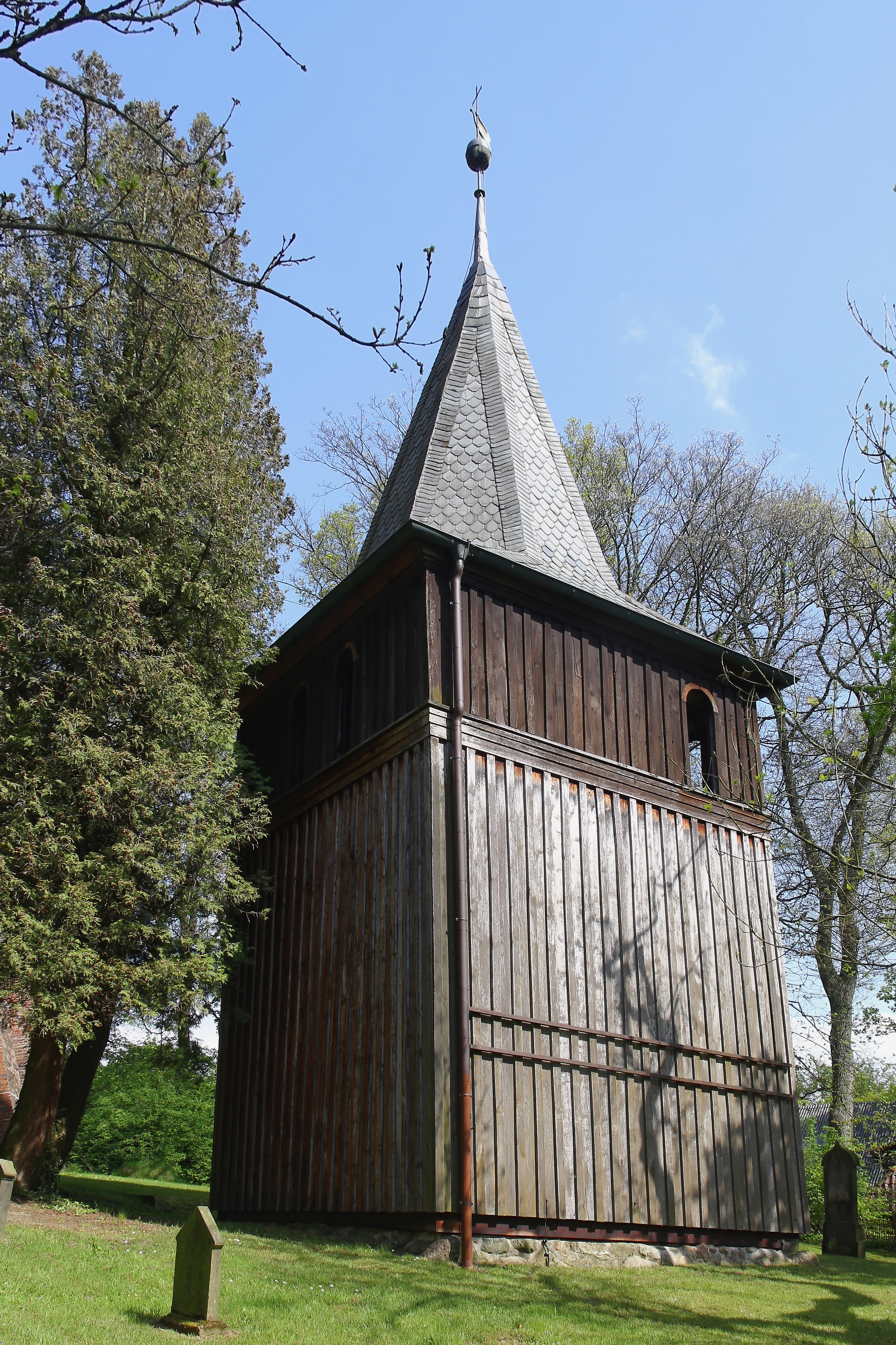 Church in Hamburg-Sinstorf